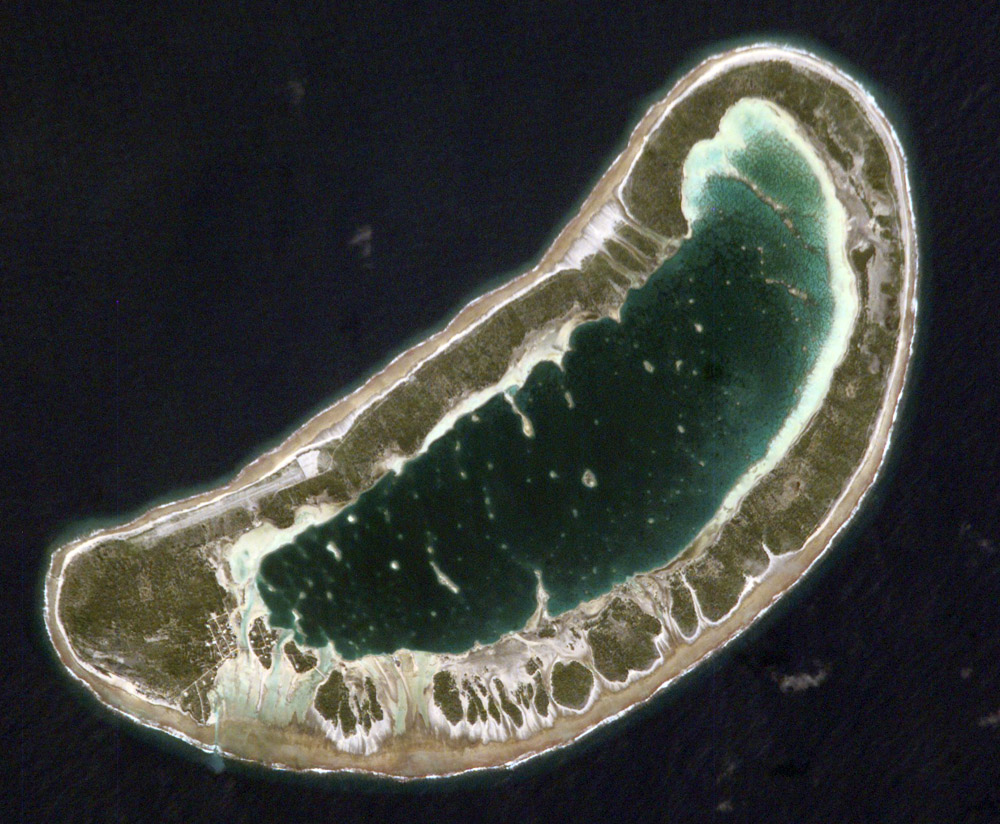 NASA Astronaut Image of Fangatau Atoll (Tuamotu Archipelago, French Polynesia) in the Pacific Ocean